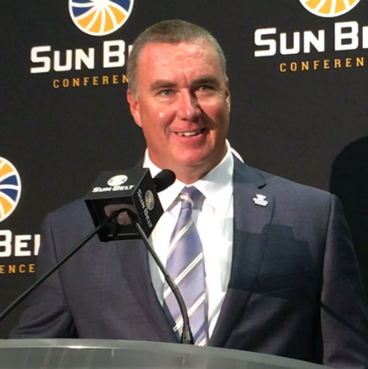 Shawn Elliott, head coach of the Georgia State Panthers football team, at the 2017 Sun Belt Conference media days in New Orleans.